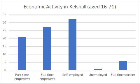 Graph showing economic activity of people aged 16-74 in Kelshall